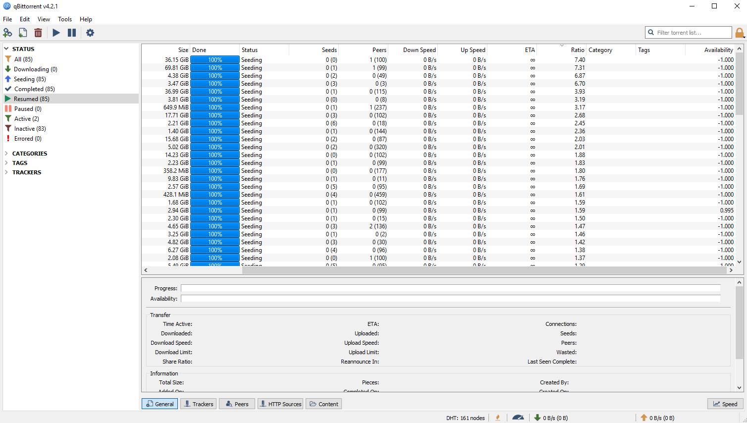 qbittorrent interface version 4.2.1